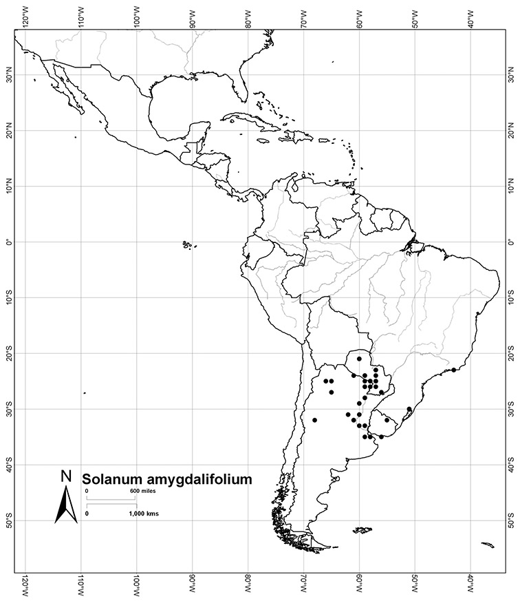 Distribution of Solanum amygdalifolium Steud.